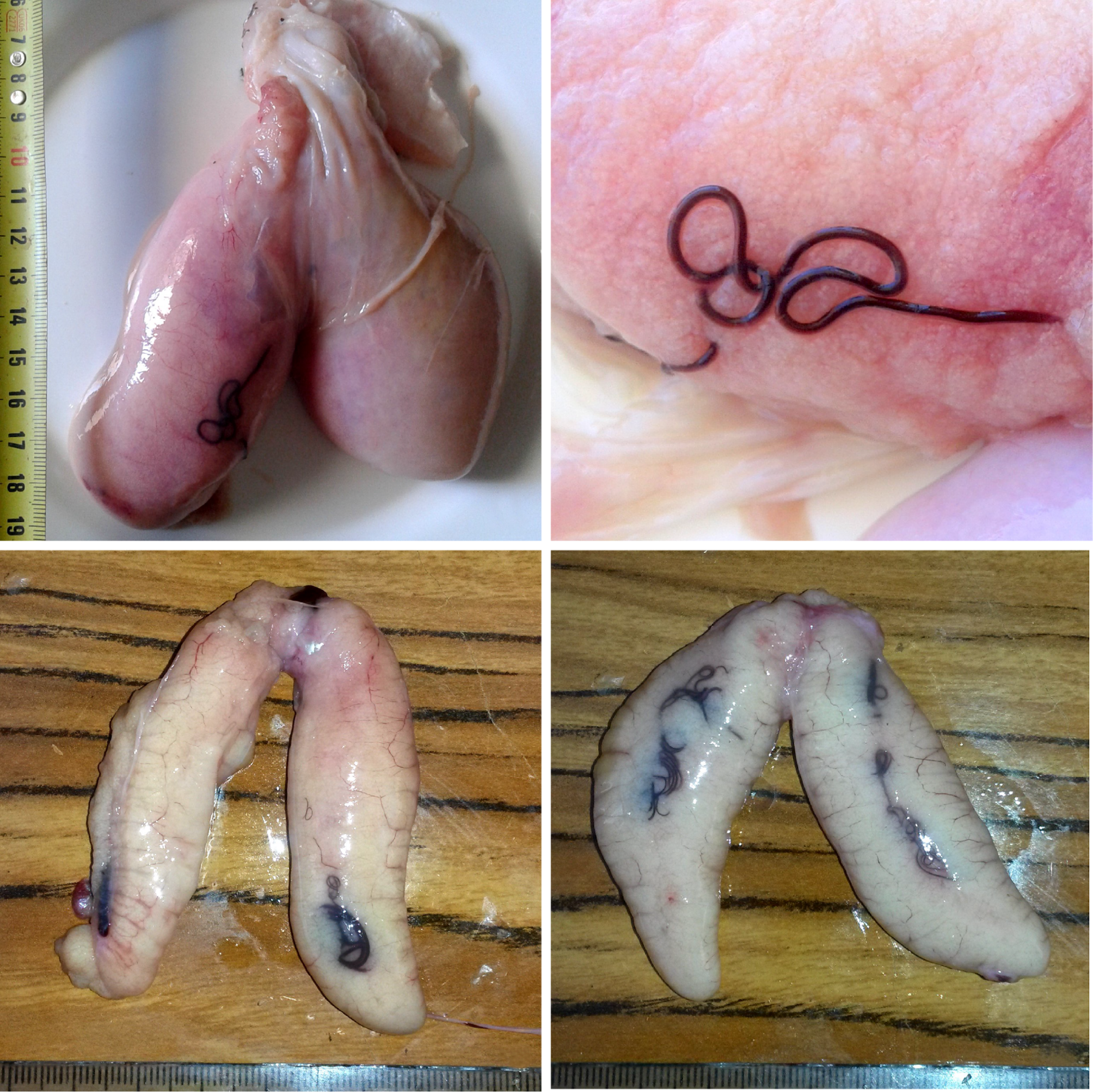 Figure 1 of paper Ovaries of fish with visible Philometra females. (A, B) Hyporthodus haifensis with Philometra rara Moravec, Chaabane, Neifar, Gey & Justine, 2017 (A) intact ovaries; (B) ovary with tunica removed. (C, D) Pomatomus saltatrix with Philometra saltatrix, two specimens. Scales: millimetres.